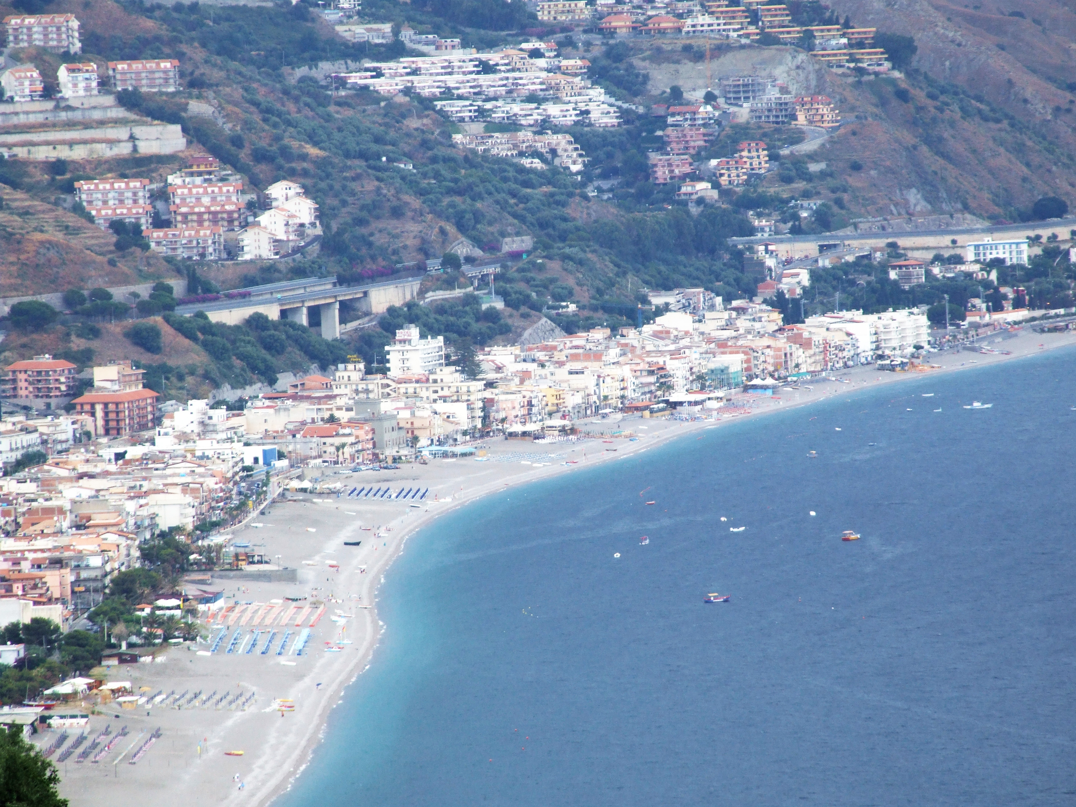 Letojanni Sicily Sicilia Italia Italy Castielli